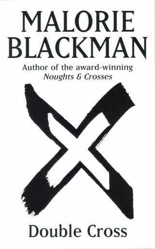 Double Cross by Malorie Blackman